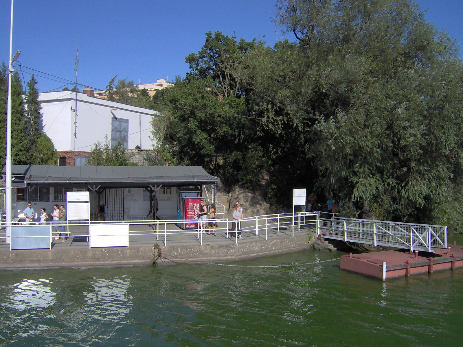 Pier Brno-Bystrc on the Brno dam